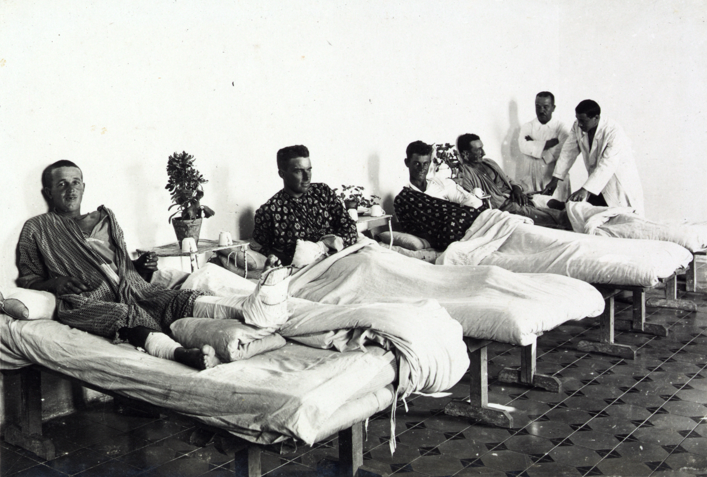 Photo of British wounded in Beersheba hospital two days before the EEF attack Other information The Photo was taken during in the Ottoman Empire